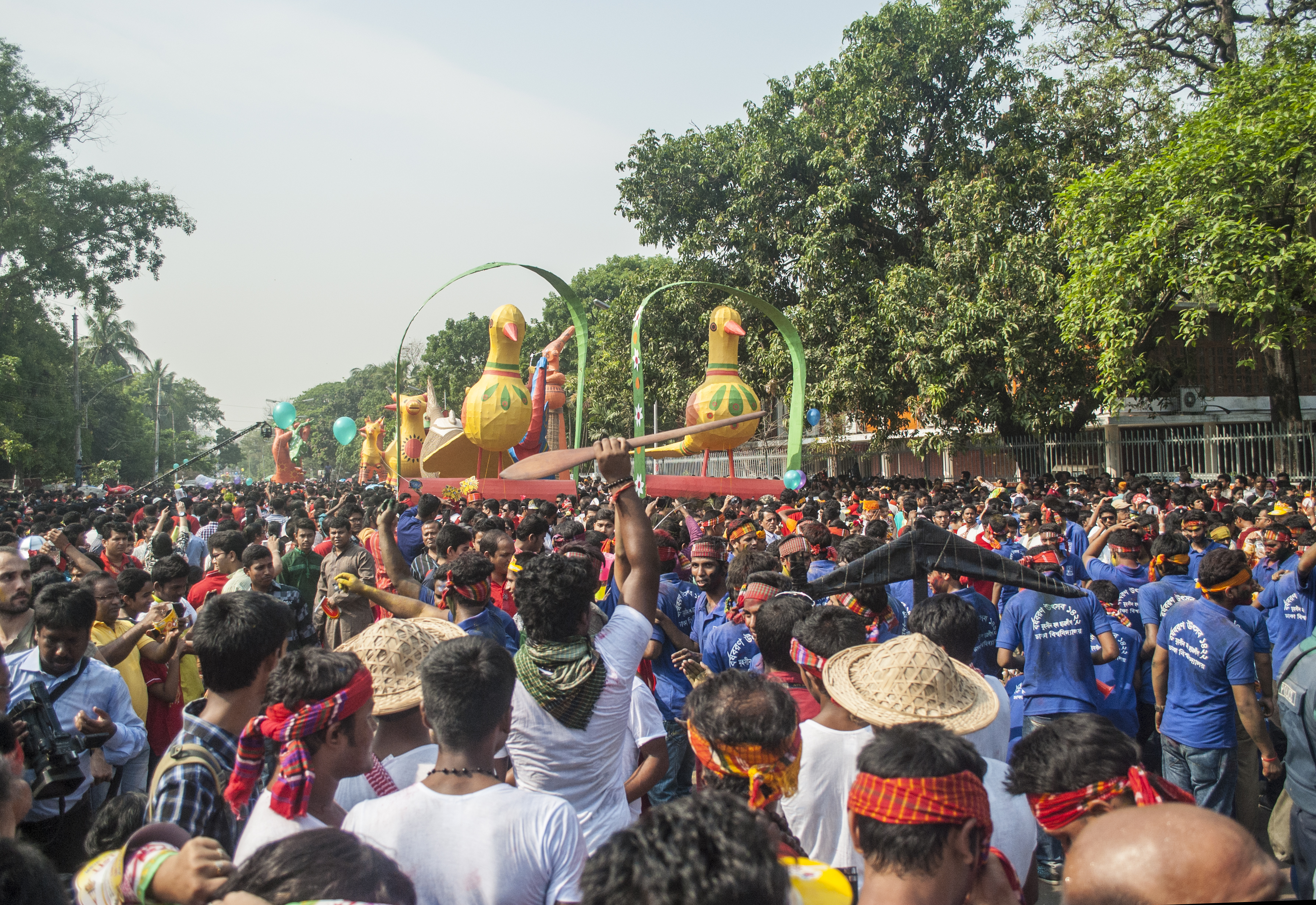 Bengali New Year "Pohela Boishakh" Celebration